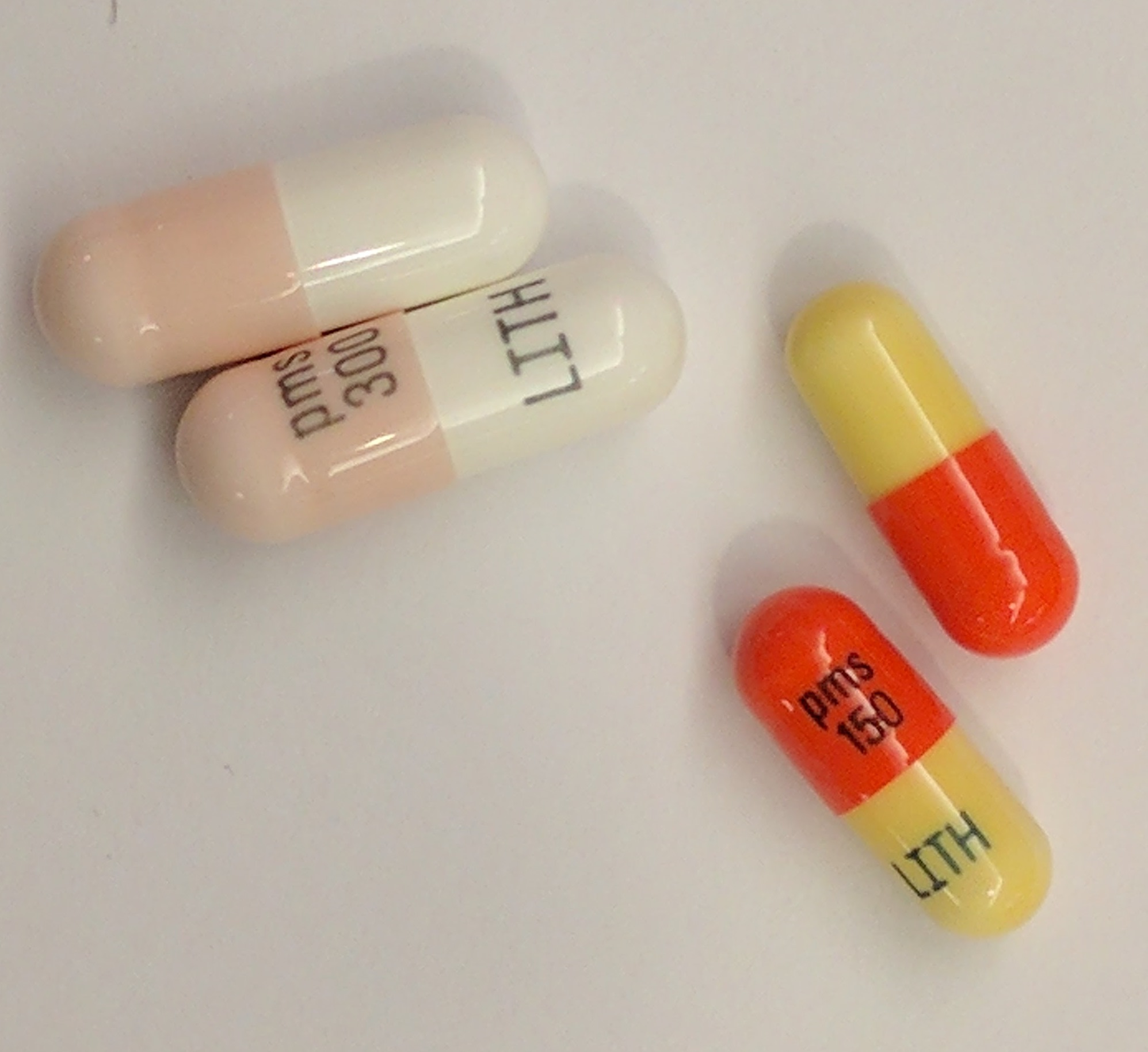 Lithium capsules (150 mg and 300 mg)